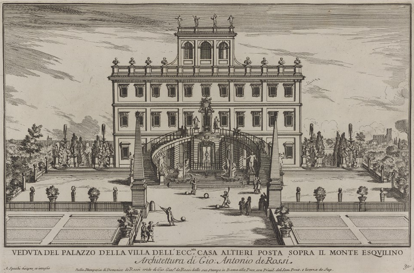 View of the Palazzo Altieri above the Esquiline Hill.